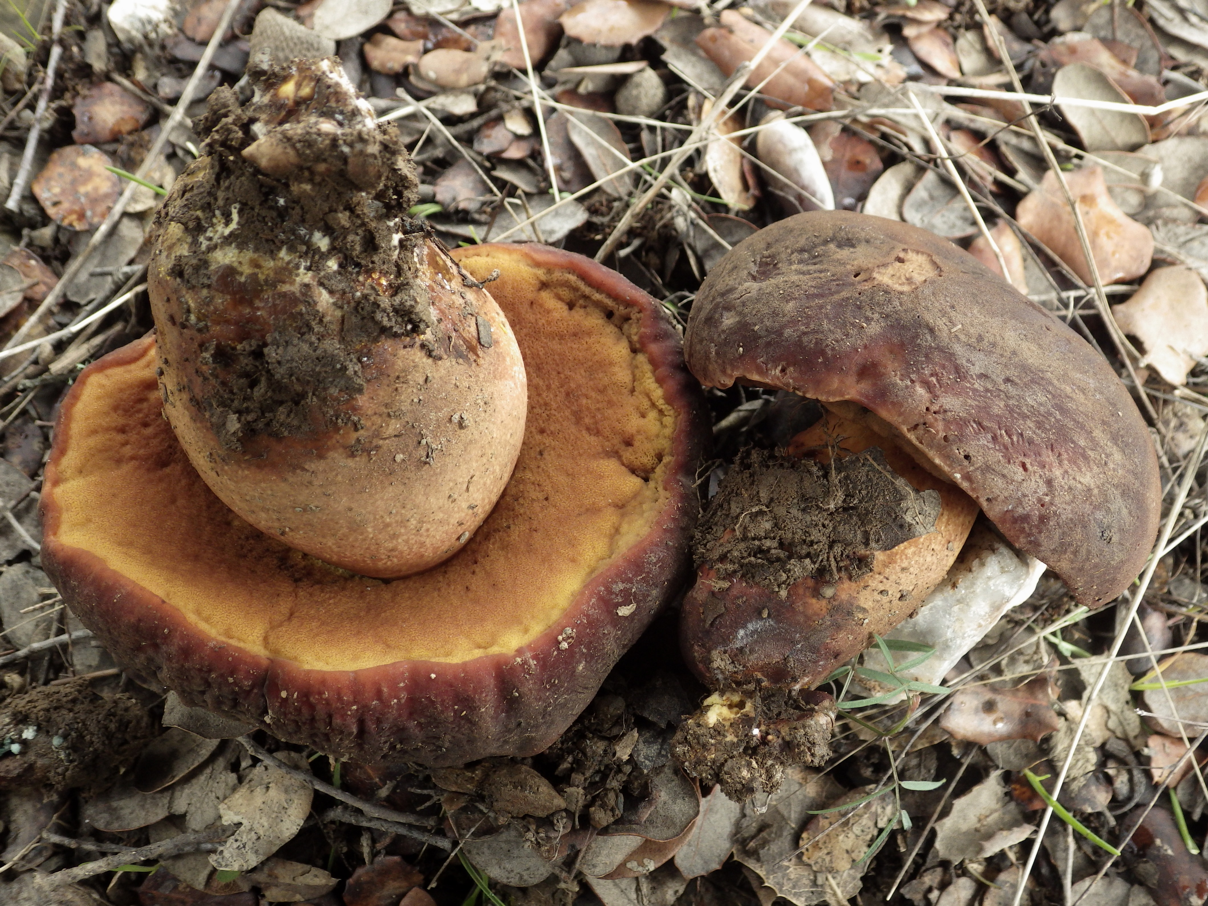 Lanmaoa fragrans Image location: Serra de São Mamede, Portugal Growing under Quercus trees. Very heavy for its dimensions. Recognized by sight For more information about this, see the observation page at Mushroom Observer.